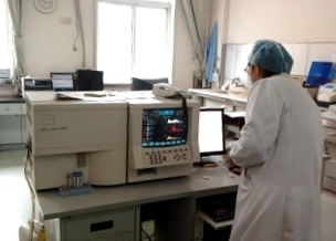 Abbott CEL-DYN 1700